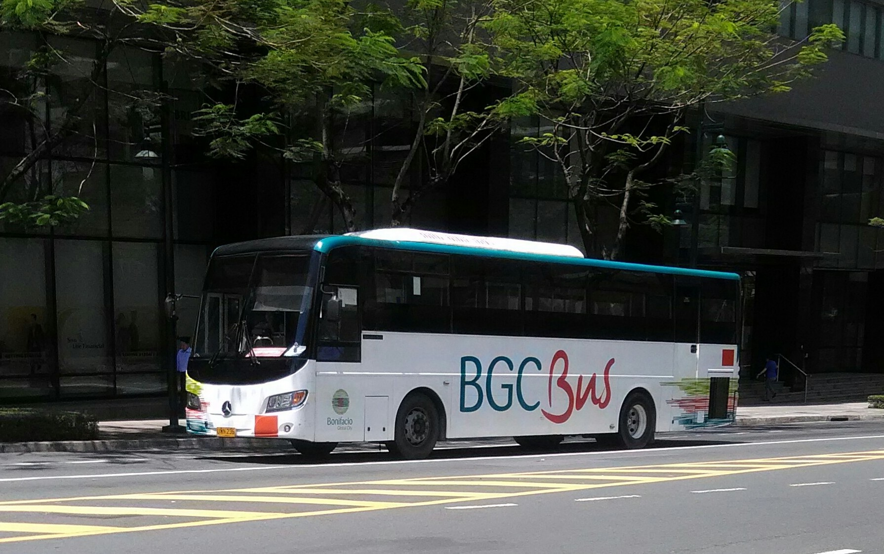 A white bus operating under the BGC Bus transport system in Bonifacio Global City, Taguig.